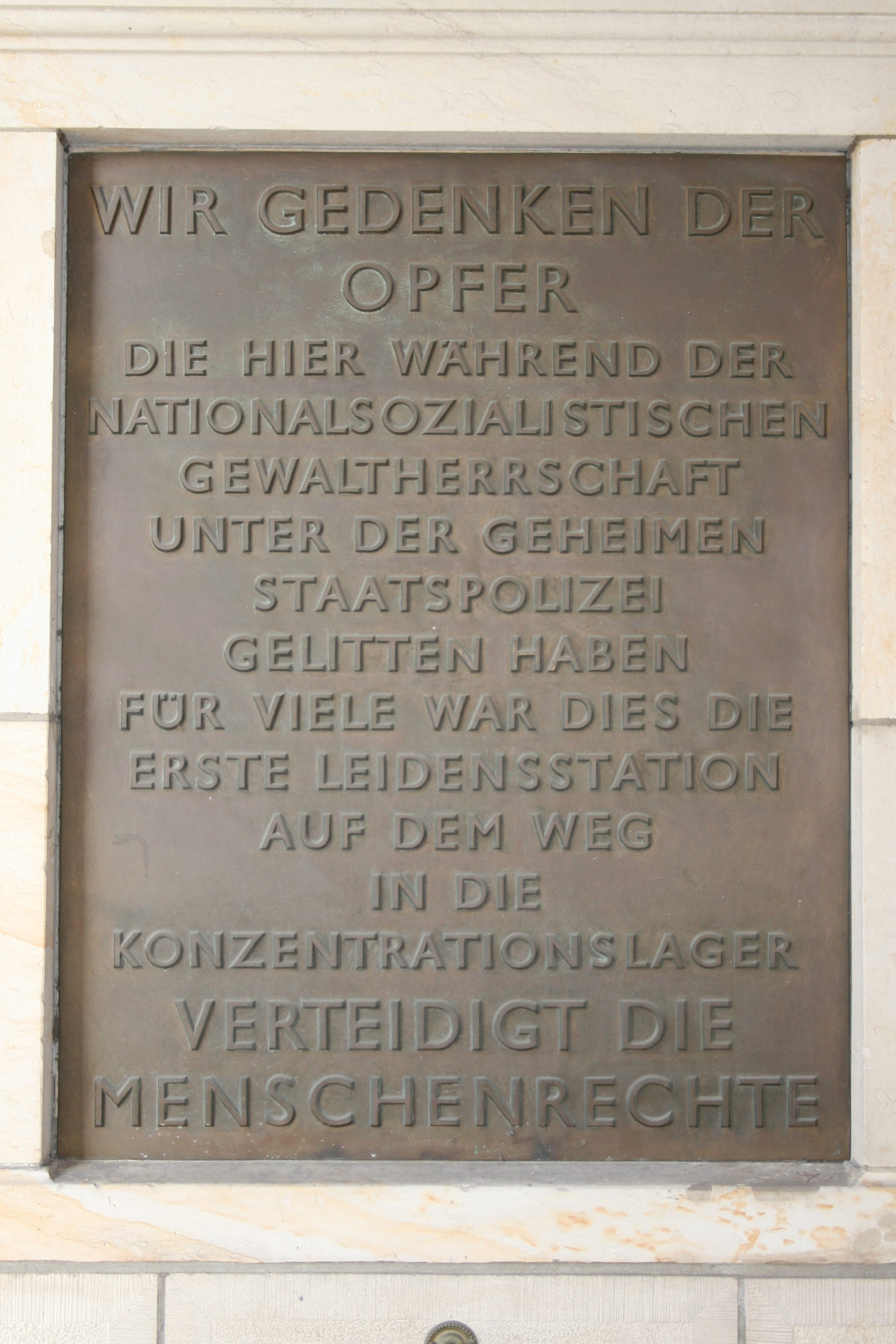 Commemorative plaque for the victims of the Gestapo in Hamburg in the entrance of the Stadthaus, headquarter of the Gestapo until 1943